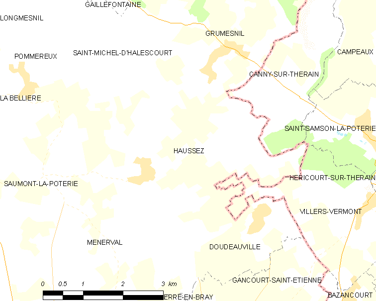 Map of French municipality Haussez